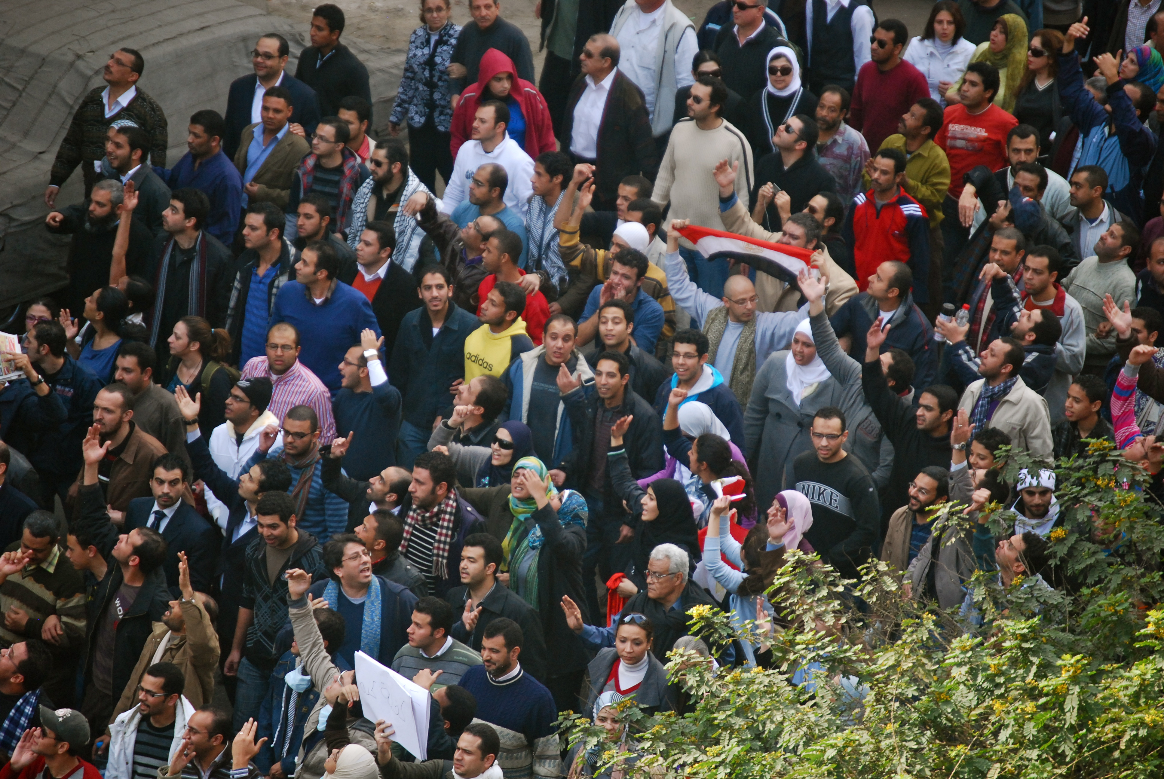 28th of January - "The Day of Rage"